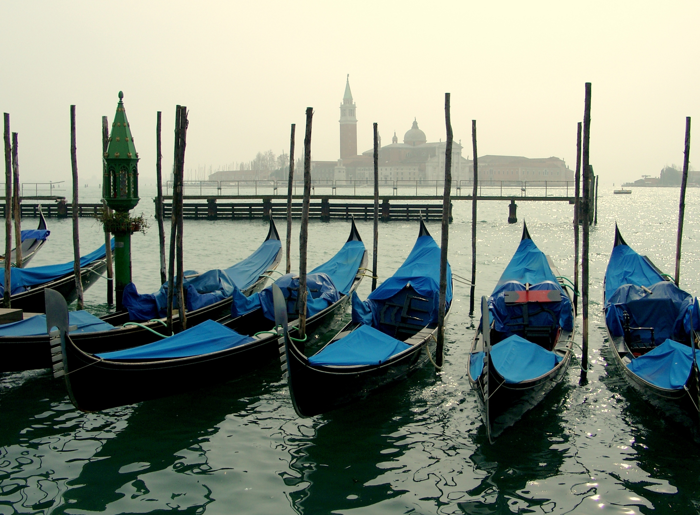 Church of San Giorgio Maggiore from Piazzetta San Marco